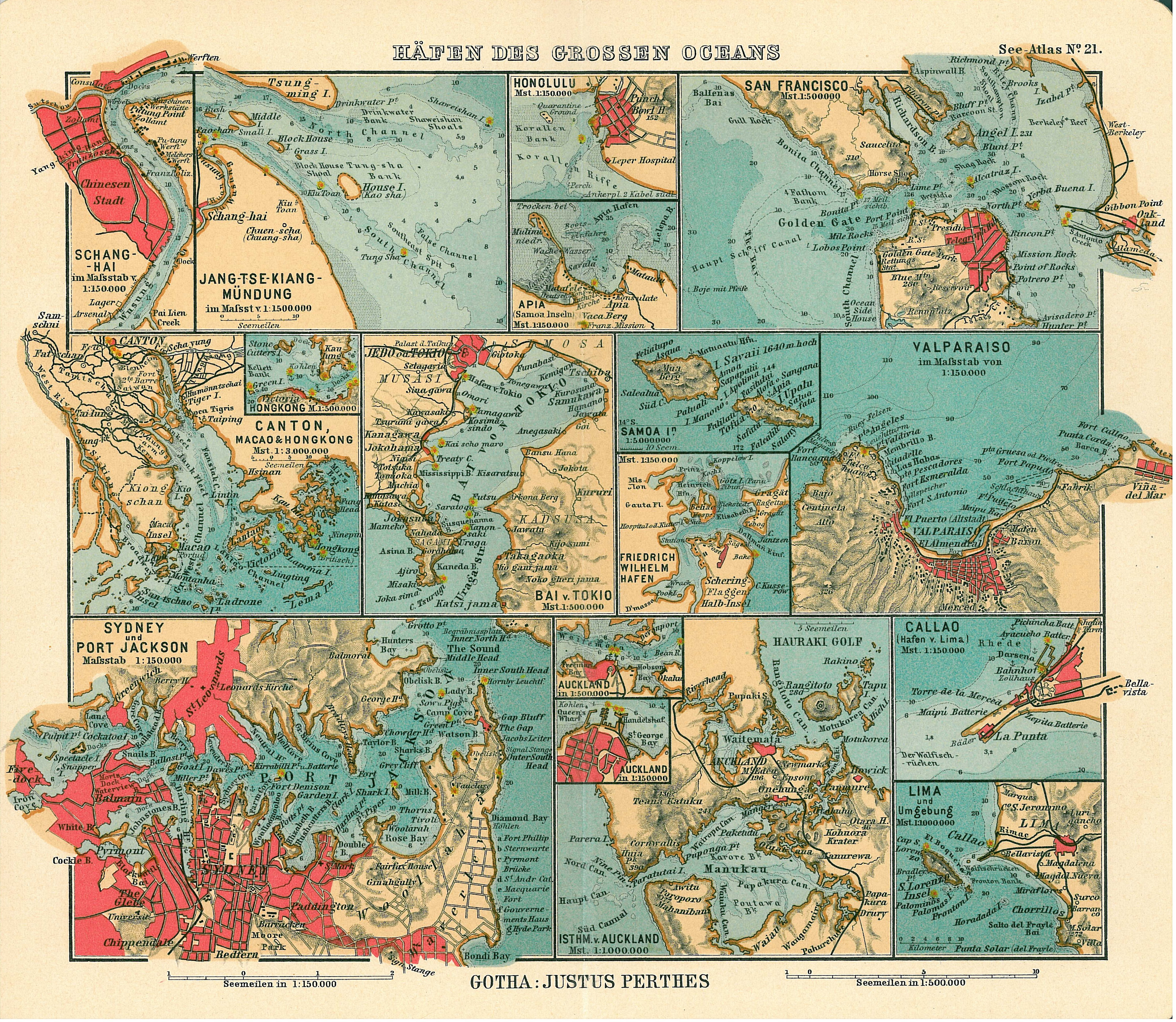 Page 21, Pacific ocean seaports from 1906 containing maps of Sydney Harbor, Auckland, Shang-hai, Jang-se-tiang bay, Honolulu, Apia, San Francisco bay, Hongkong, Tokyo, Samoa, Valparaiso, Lima-Callao